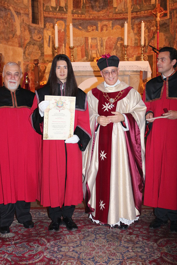 Kento Masuda was honored with the title of “Maestro,” an accolade awarded by Monsignor Luigi Casolini to the Knights of the Order of St. Sylvester gentlemen.